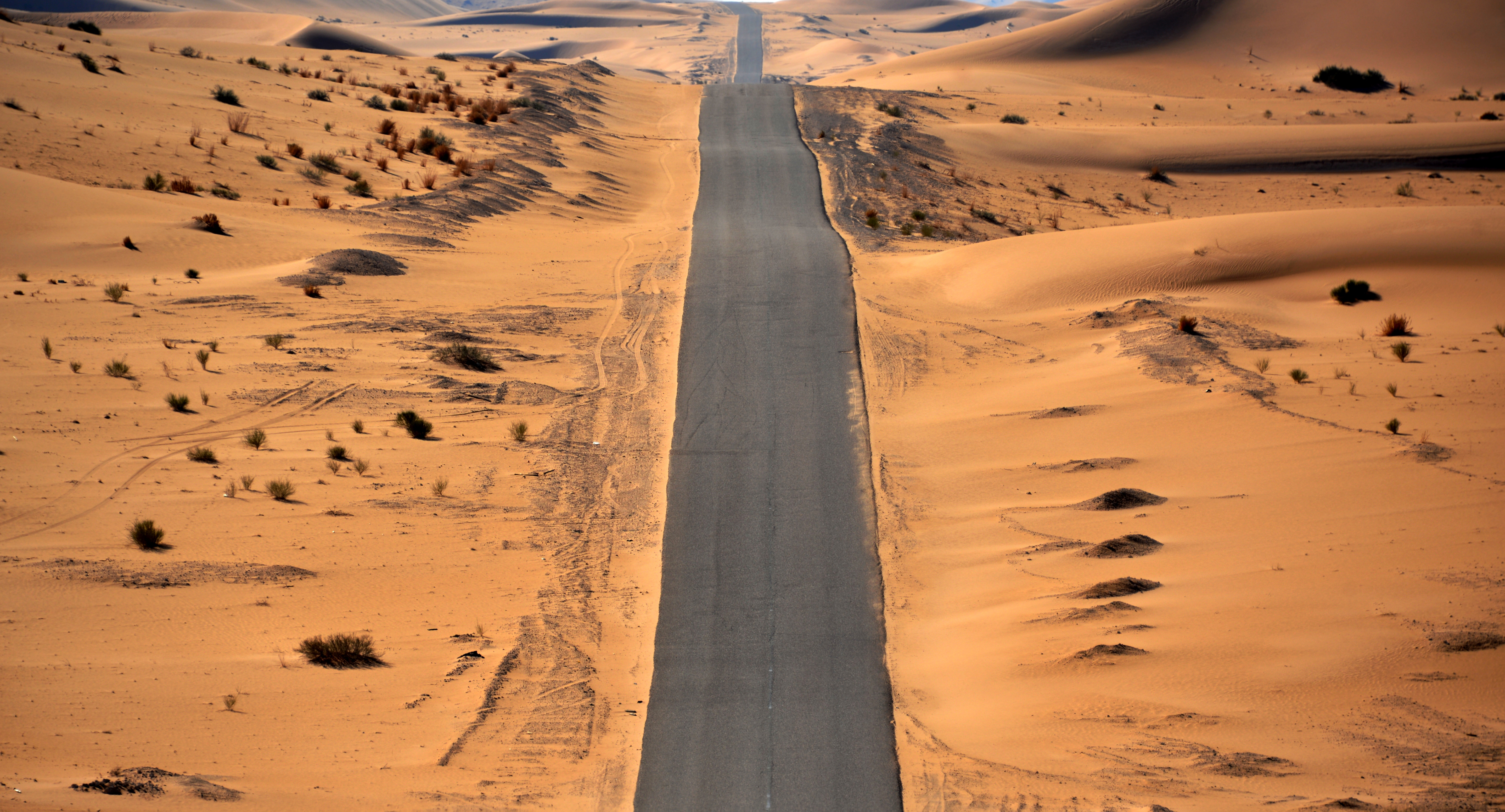 The photo was taken in the south east of the Algerian desert in the Grand Erg Oriental